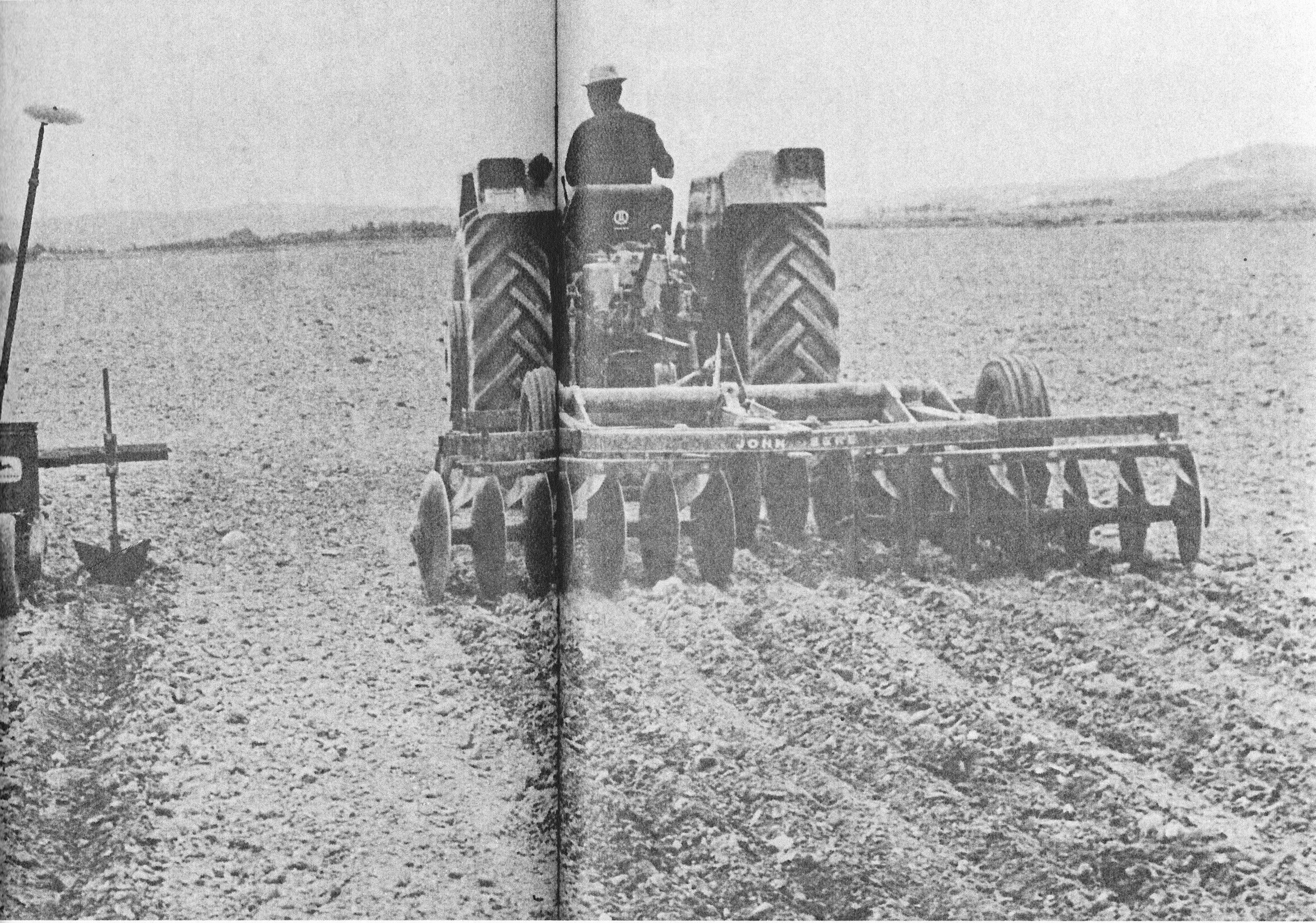 Farm Behkadeh Raji, Iran